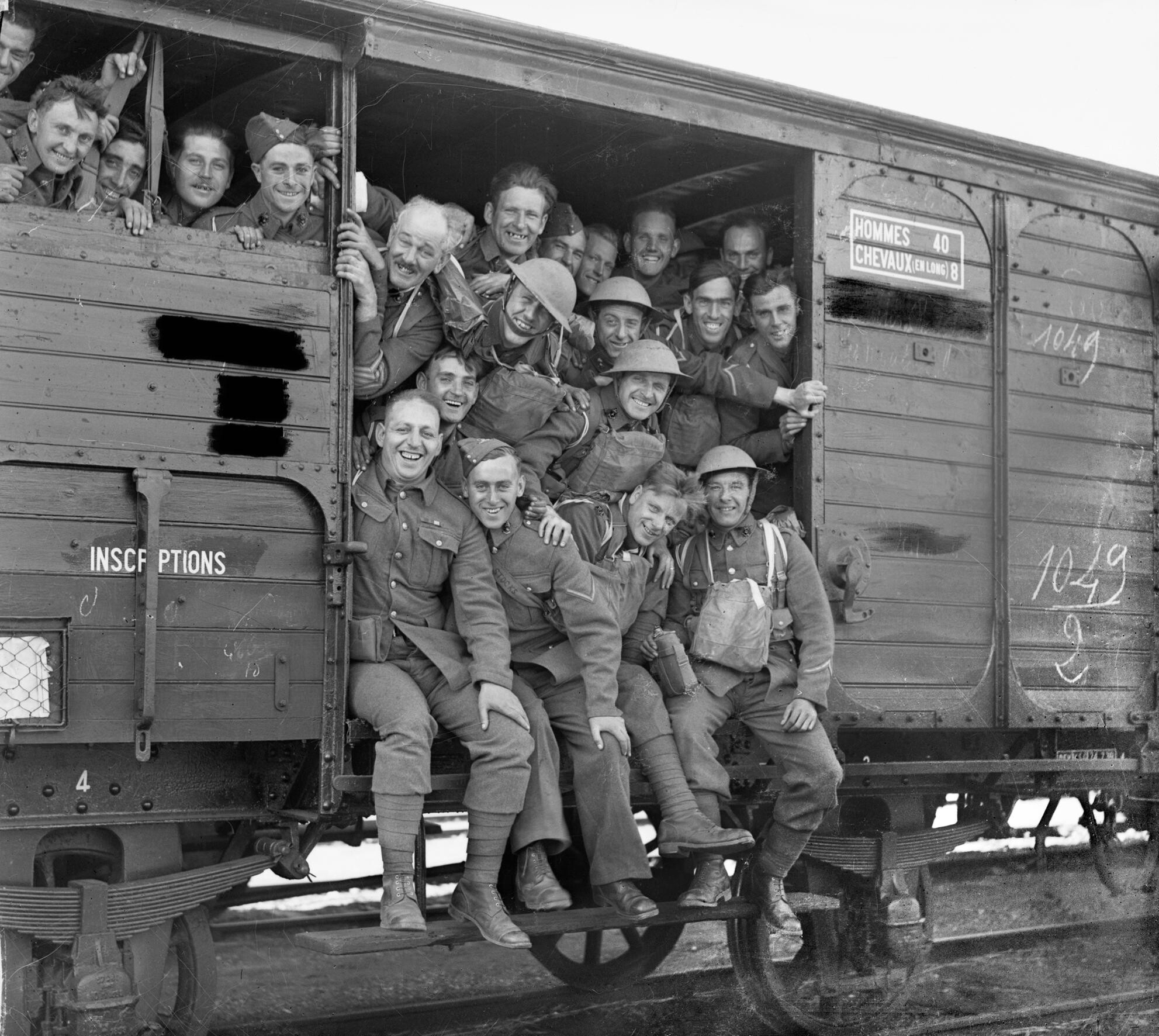 The British Army in France 1939 Men of the BEF being transported from Cherbourg to their assembly area in a railway goods wagon, 29 September 1939.